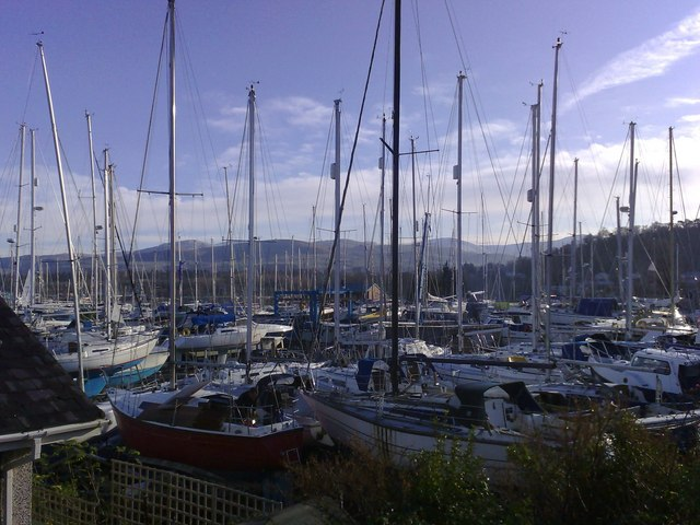 Dickies Boatyard, Bangor, 11.30 am Looking south east from the Boatyard Inn car park.